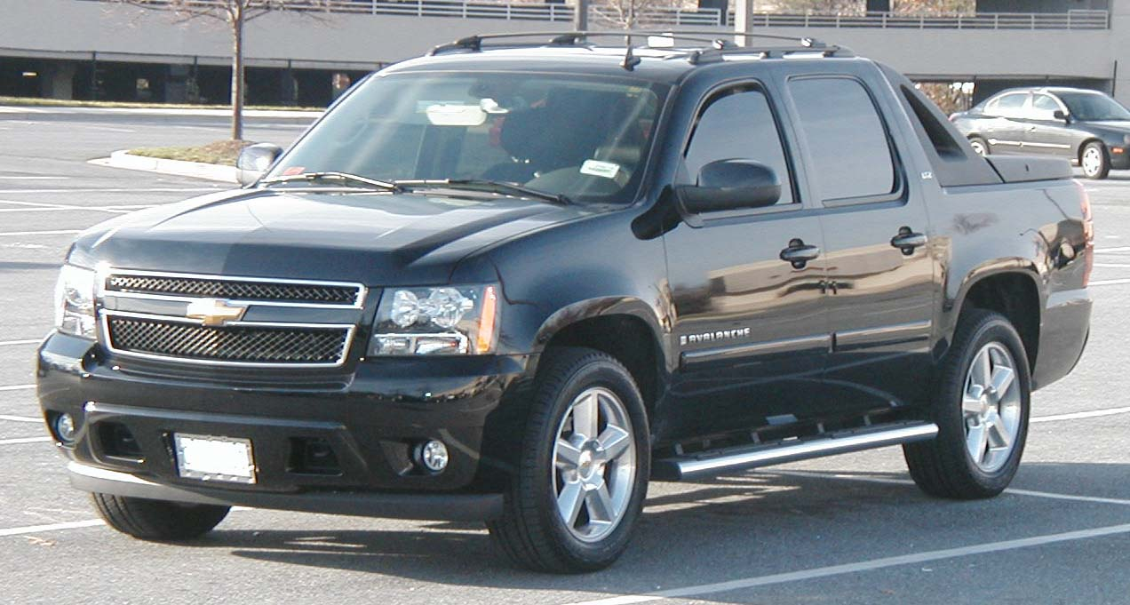 2007 Chevrolet Avalanche LTZ photographed in USA.